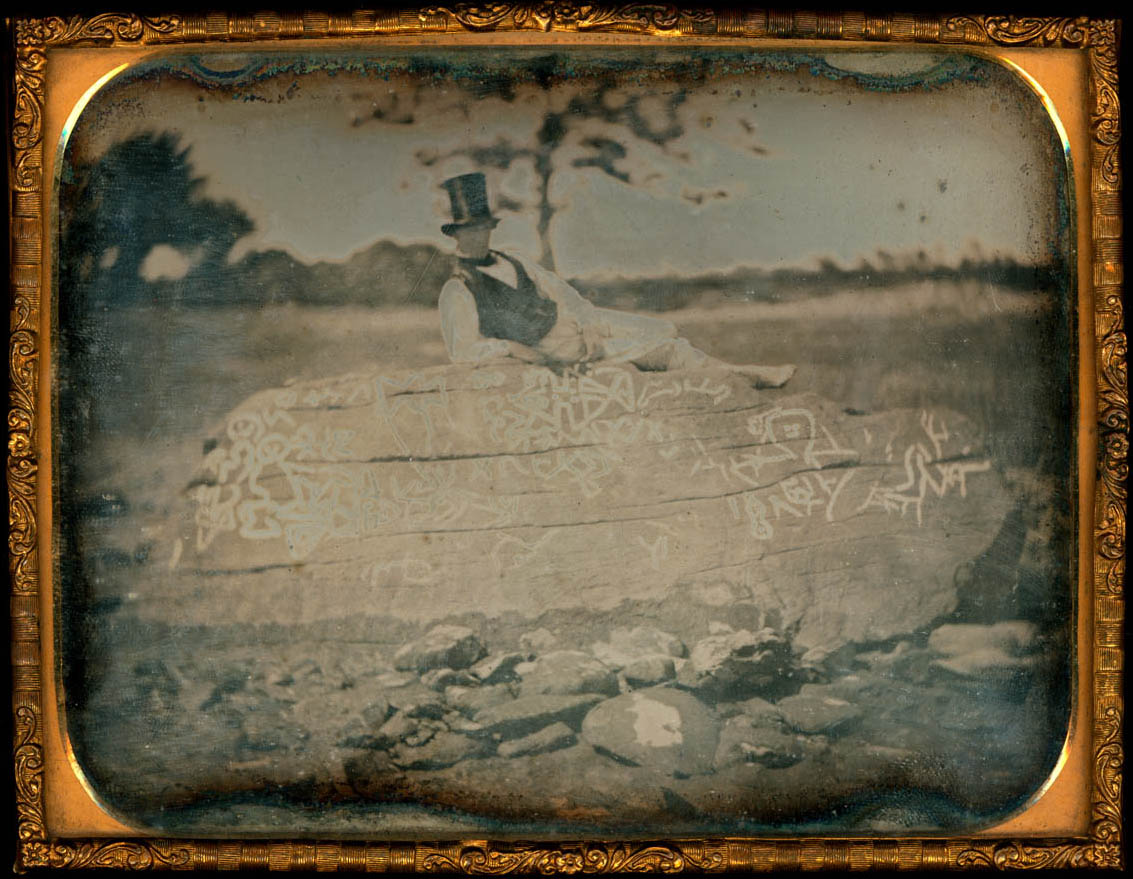 Seth Eastman on Dighton Rock